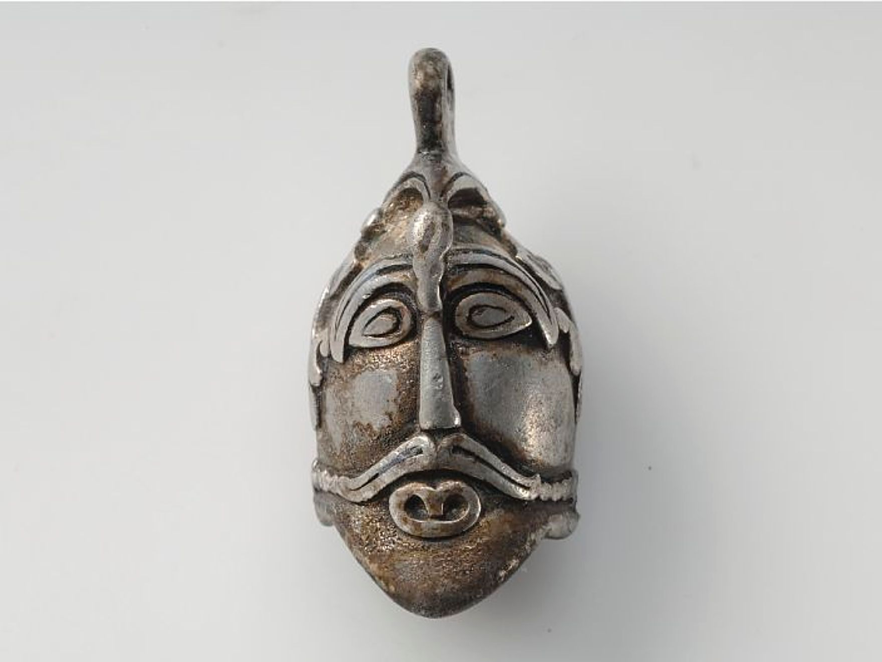 Hänge av silver i form av ett mansansikte. Från Aska, Hagebyhöga socken, Östergötland. Vikingatid